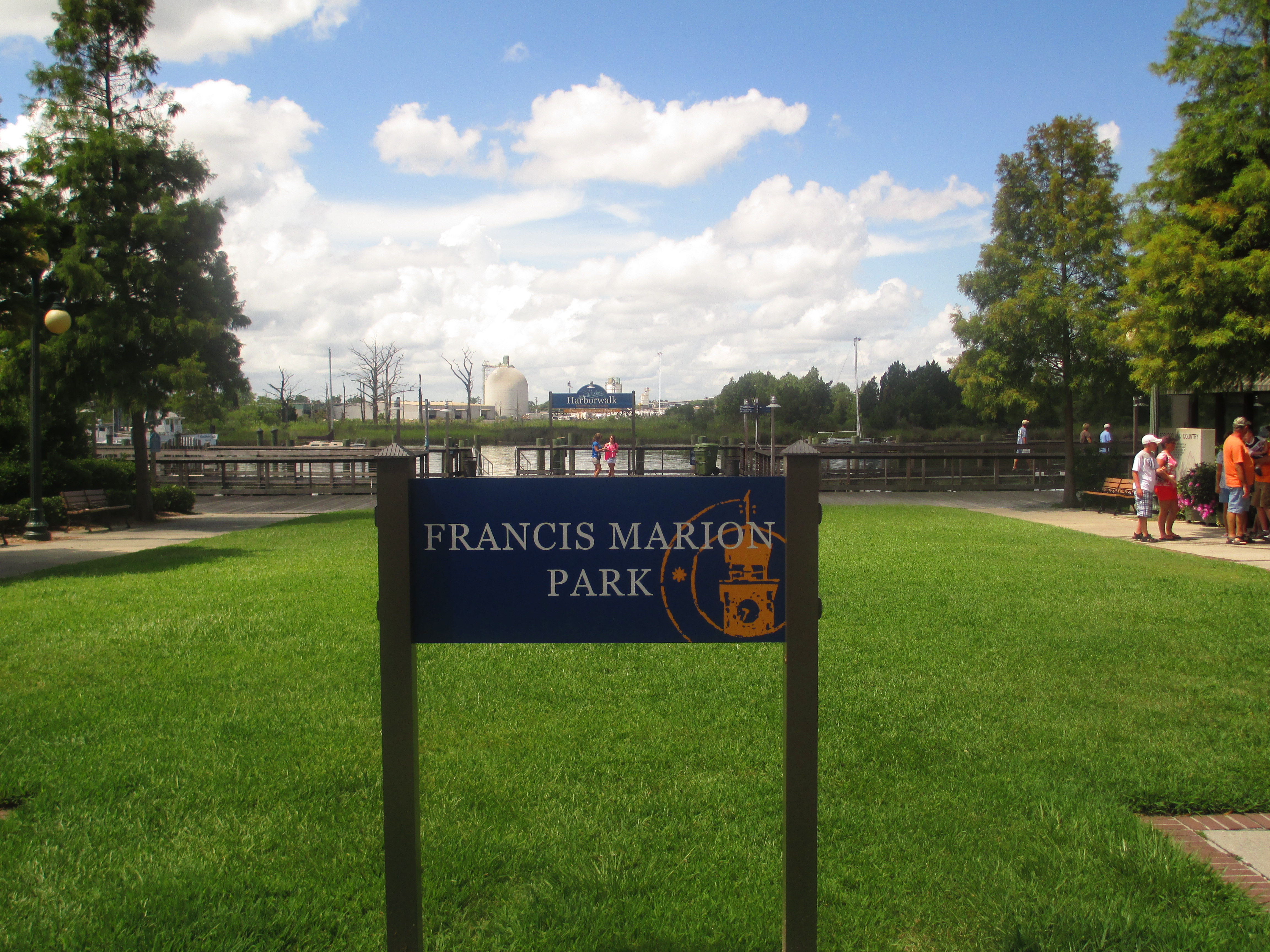 I took photo of Francis Marion Park in Georgetown, SC, with Canon camera.